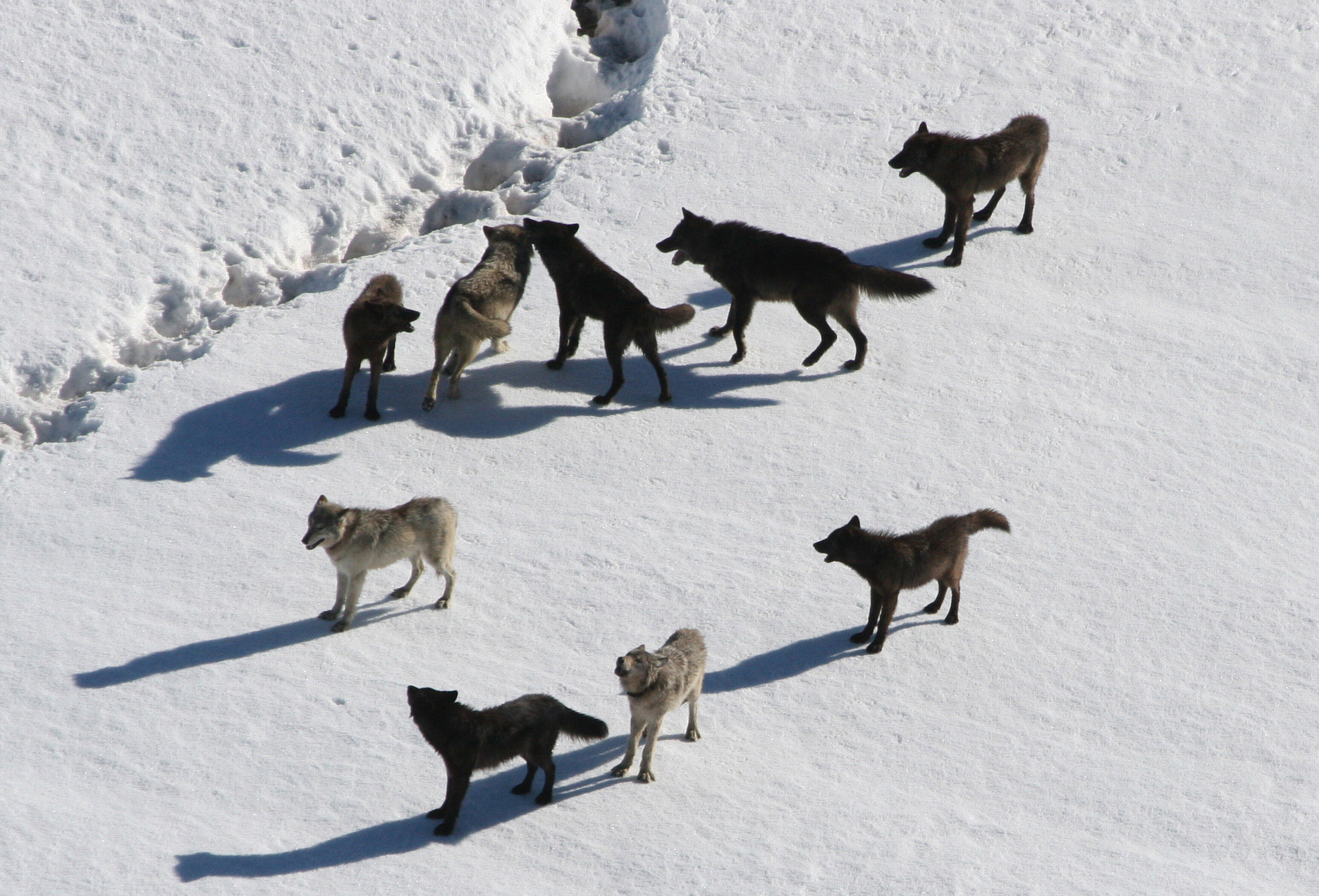 The Gibbon wolf pack pauses in the snowy landscape.